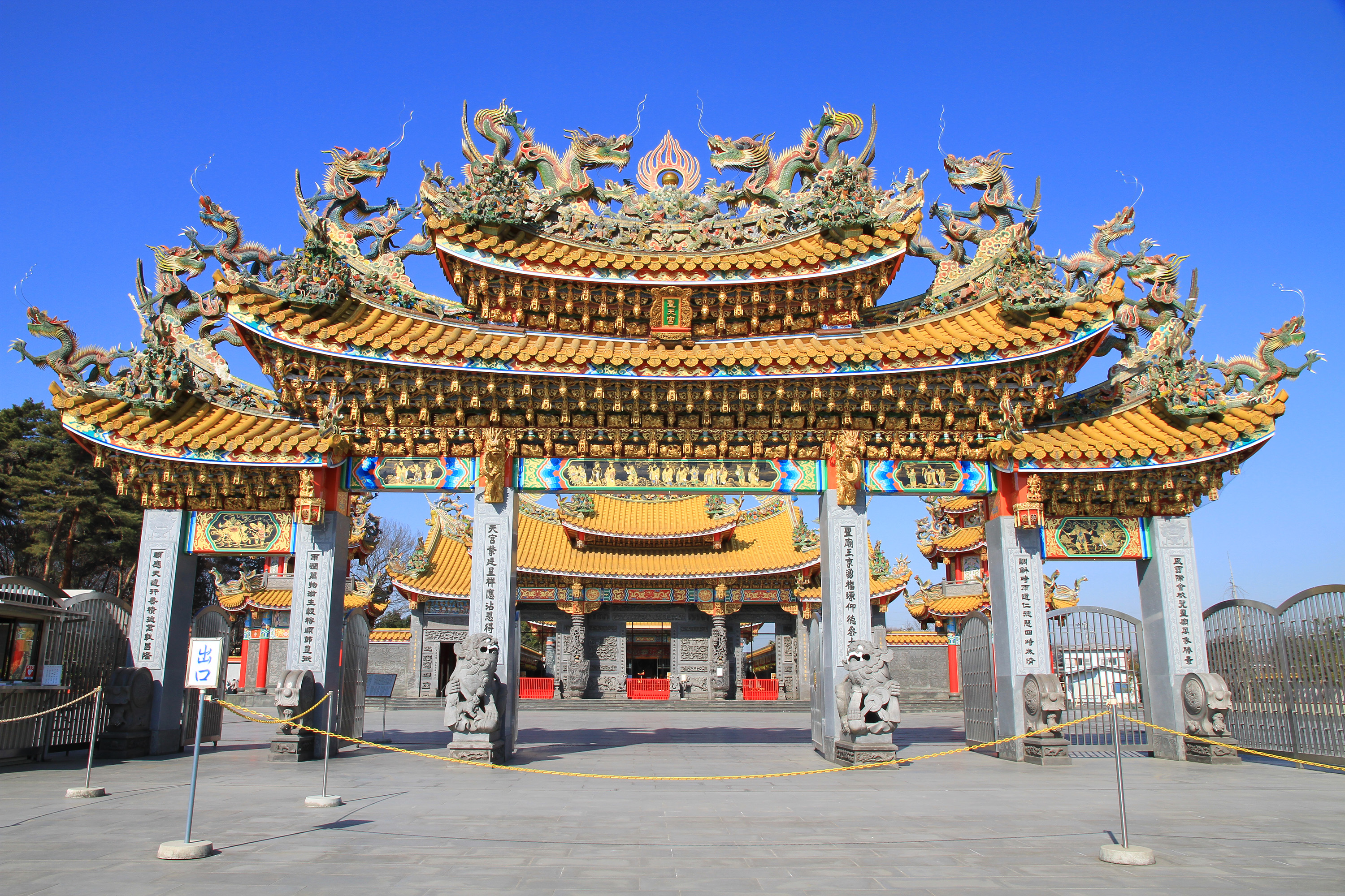 Main gate of Xien Ten Gong temple in Sakado, Saitama, Japan